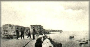 A group of "Maghariba" (Moroccans, also for inhabitants of the Maghreb region) on the docks of Beirut's port.